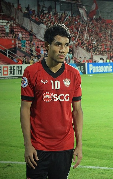 Teerasil Dangda After game AFC Champions League 2013 Group Round Muangthong - Urawa Red